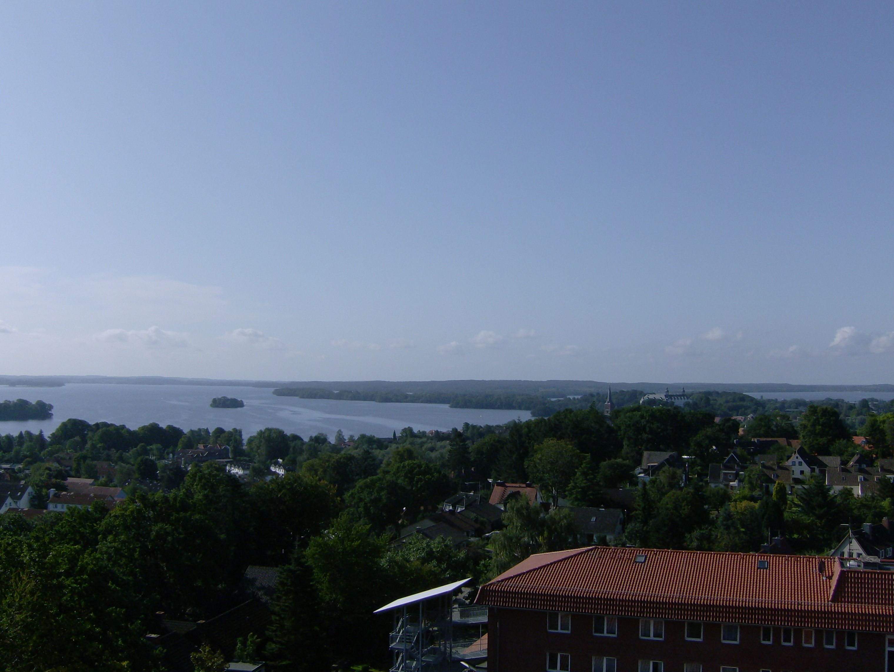 View over Plön from the Parnaßturm. Left Großer Plöner See (left), Castle (center) and Kleiner Plöner See (right)